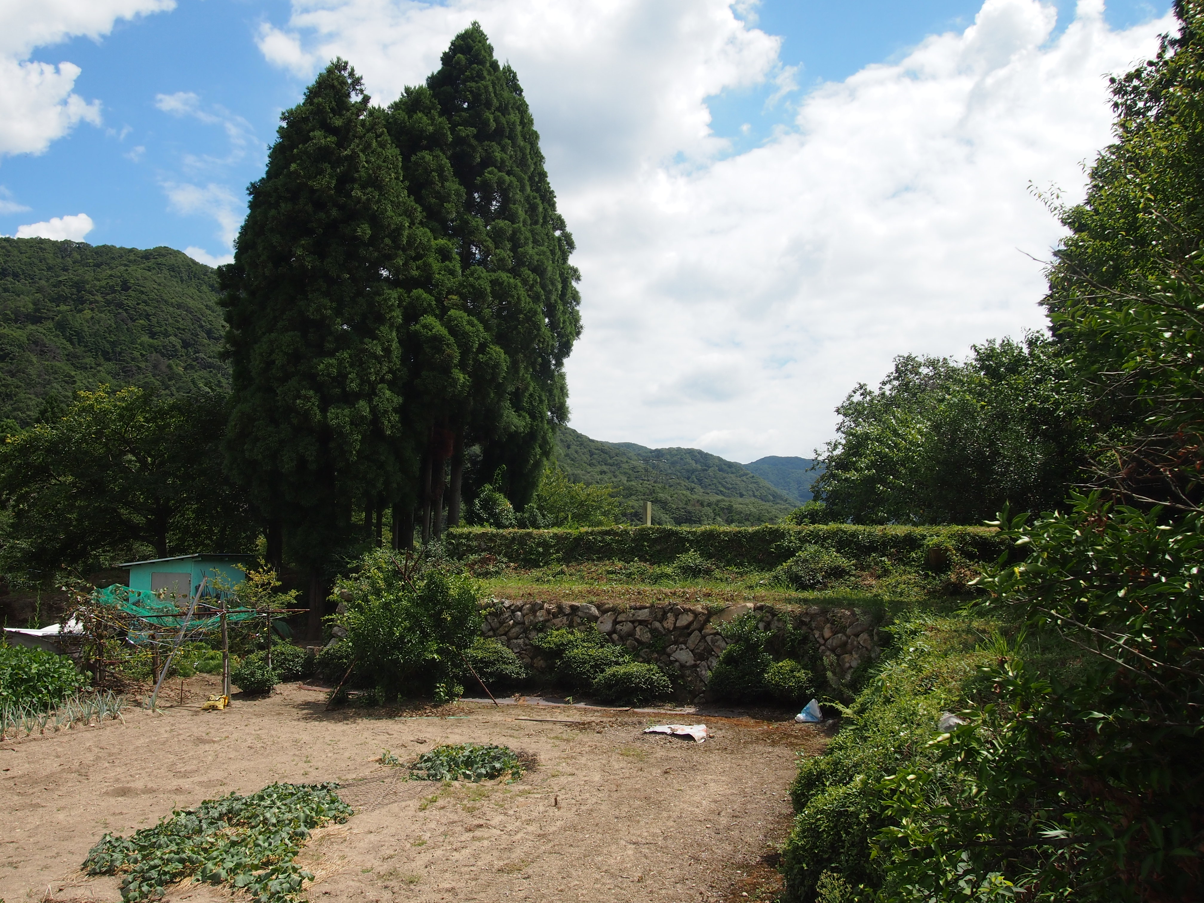 Hikida castle ruins in Tsuruga, Fukui.